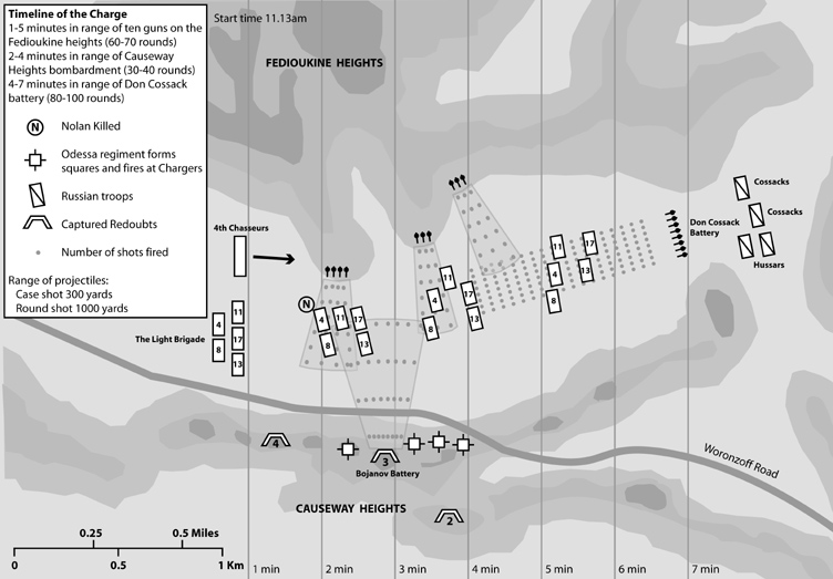 This illustration shows the time line of the Charge of the Light Brigade. It was originally created for my book Forgotten Heroes: The Charge of the Light Brigade.